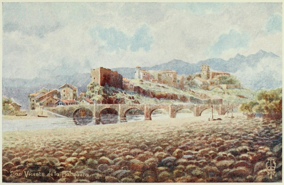 San Vicente de la Barquera